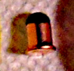 An image of the .22 BB Cap cartridge.